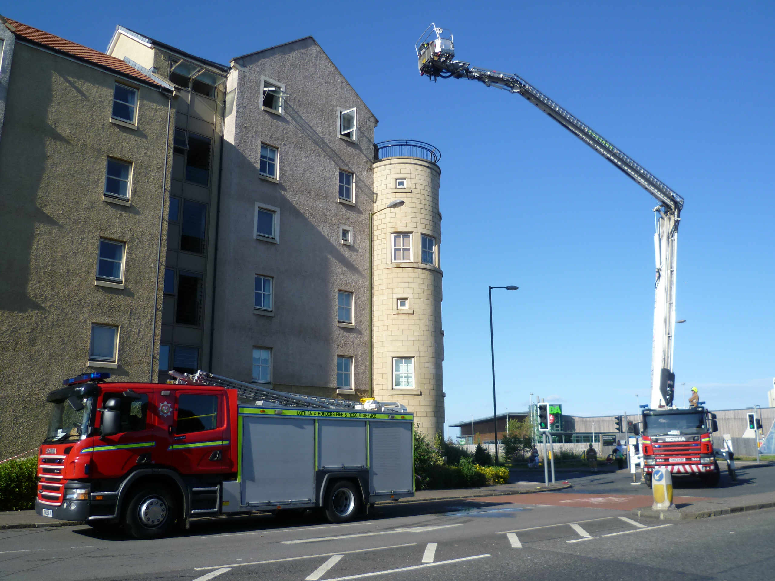 Lothian And Borders Fire Service responding to an emergency at Newhaven